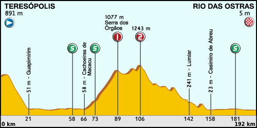 Profile of the 4th stage of the 2012 Tour do Rio